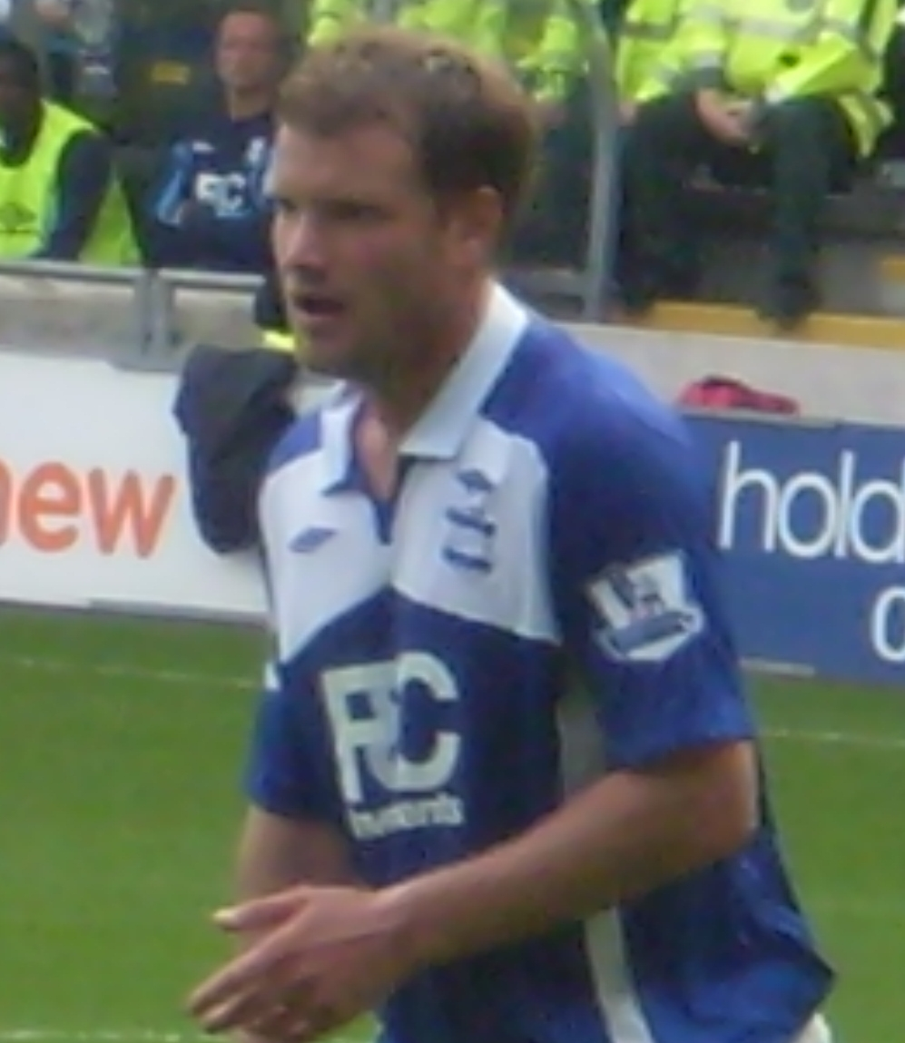 Finnish footballer Teemu Tainio, on loan from Sunderland A.F.C. to Birmingham City F.C., during the Premier League match against Hull City A.F.C. at the KC Stadium, September 2009